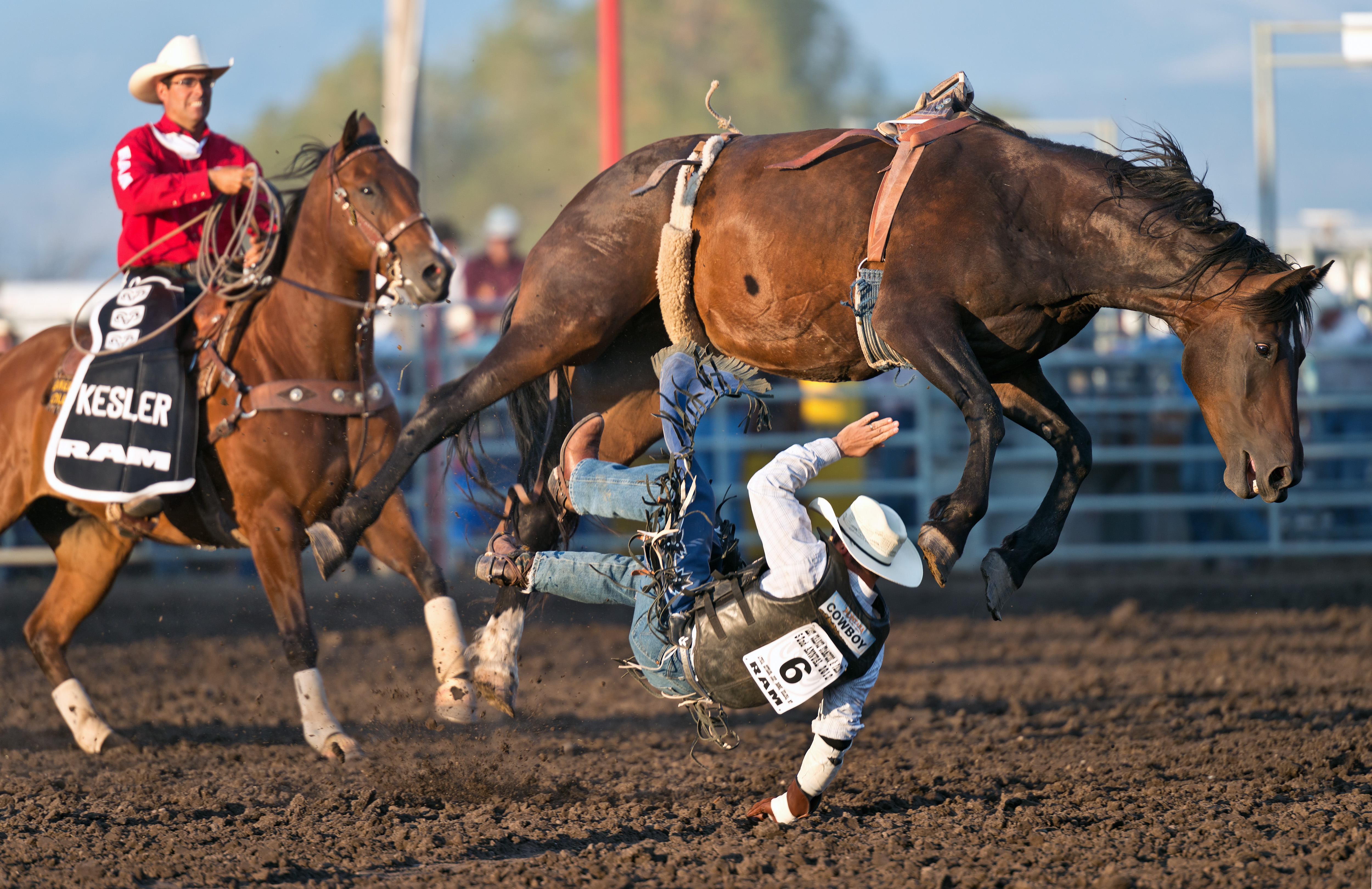 Last Chance Stampede and Fair 2012